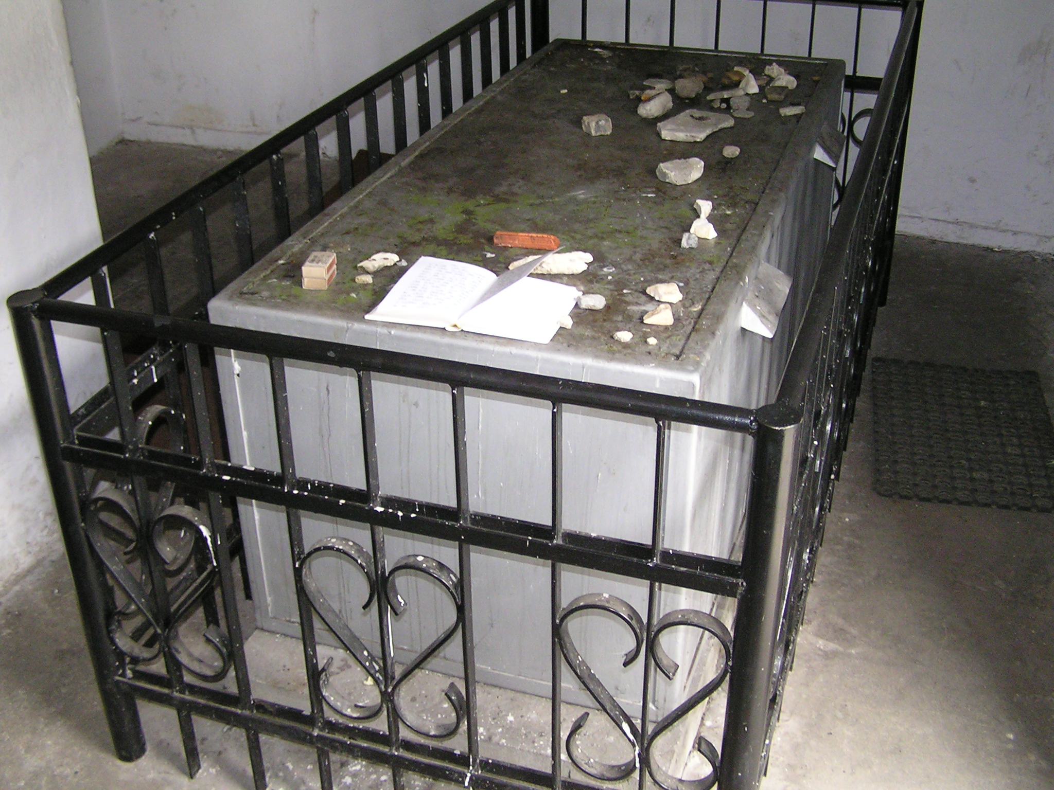 Inside the building containing the grave of Rabbi Dovid of Lelow Photo taken by Mikolaj Welon